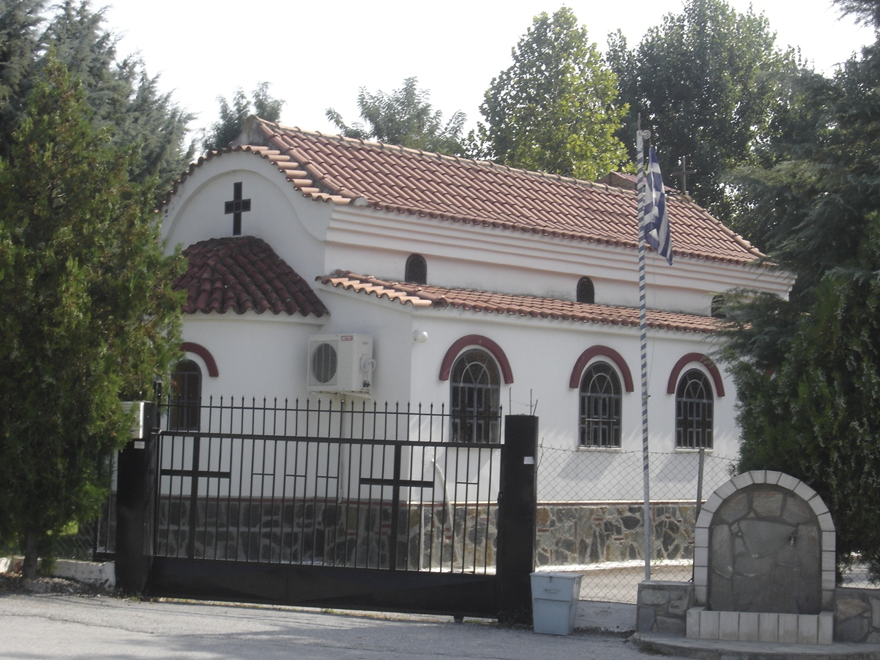 A church in Ano Agios Ioannis.